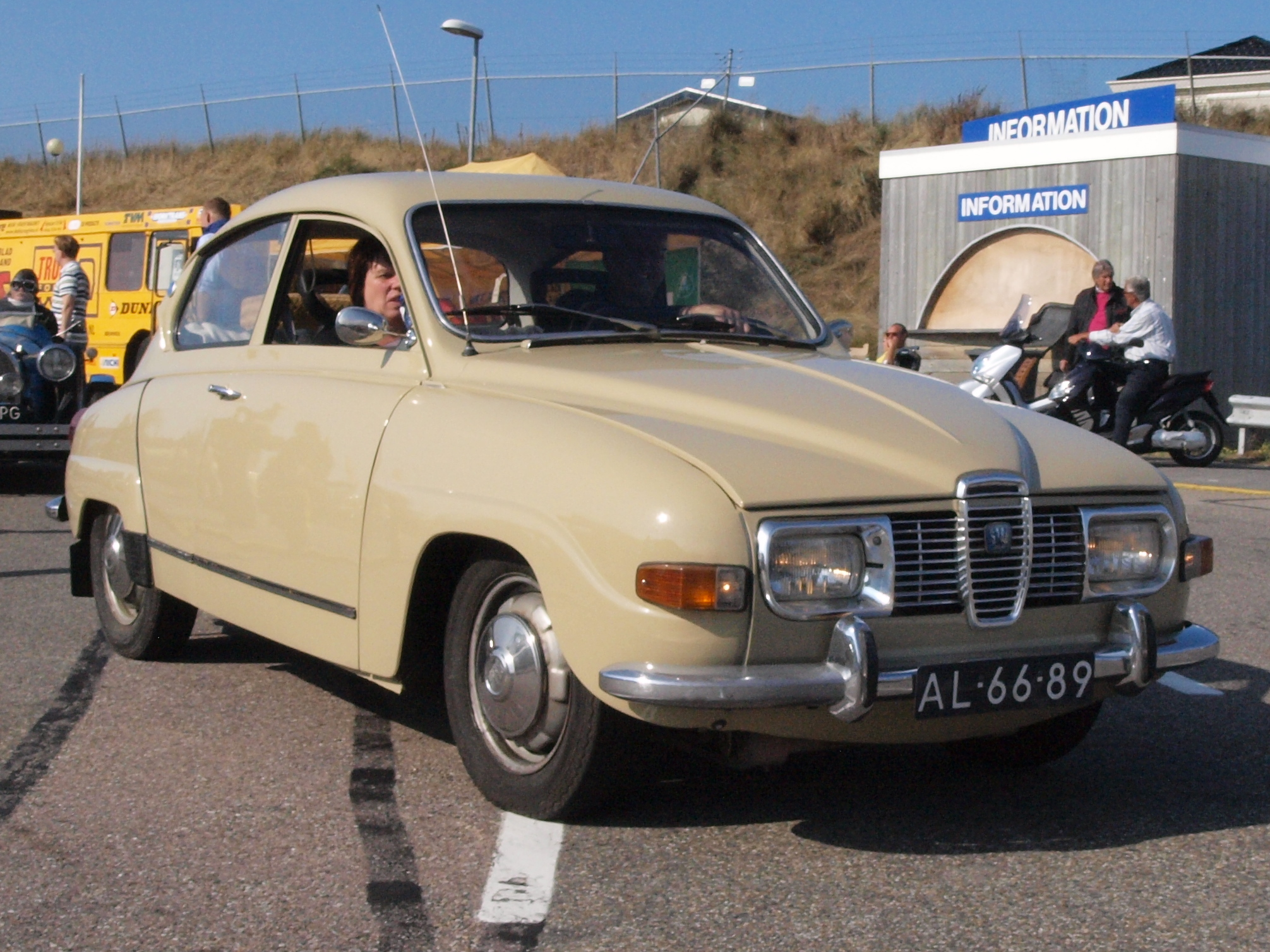 1971 Saab 96 V4 photographed at the Nationaal Oldtimer Festival Zandvoort 2009, The Netherlands.